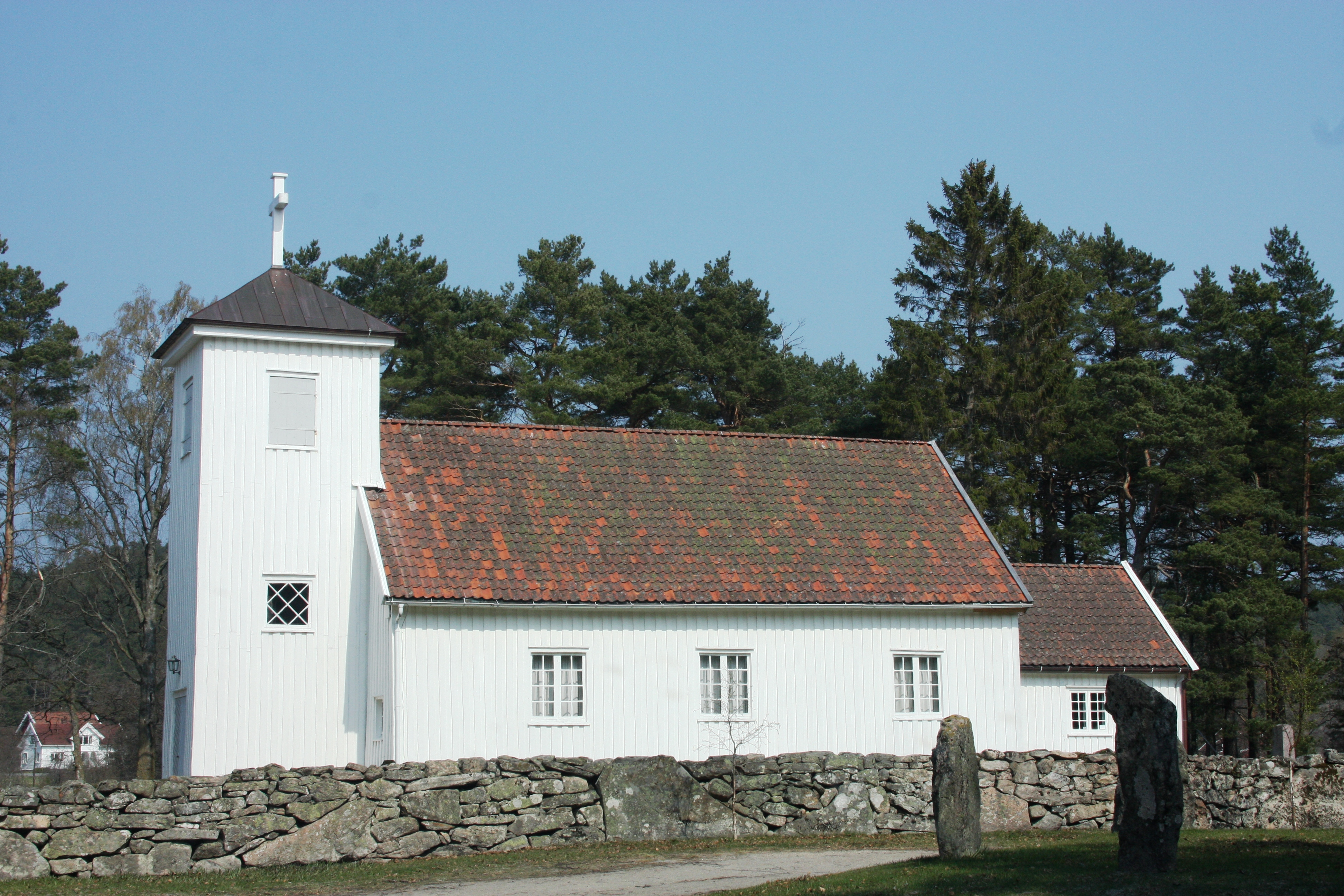 Harkmark Church in Mandal municipality, Norway. One of the oldest church grounds in Agder, with viking-age bauta stones seen in the foreground.